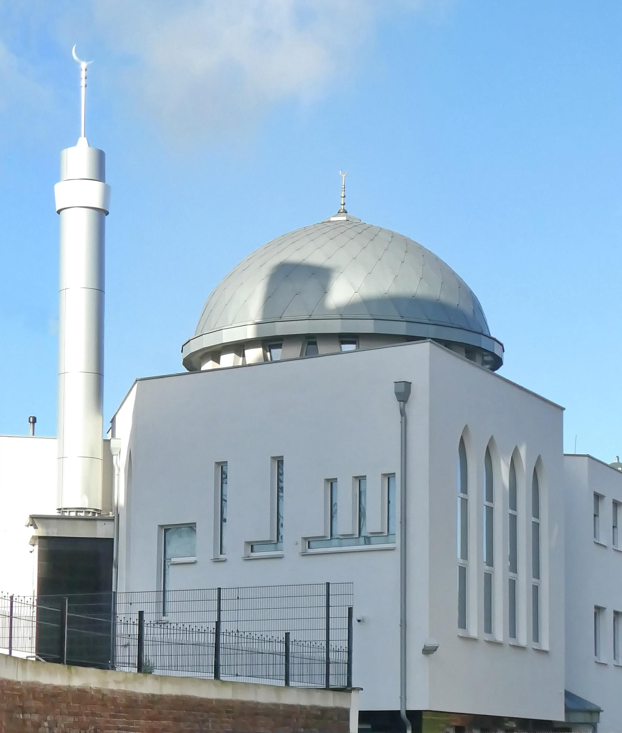 bosniak mosque in Witten